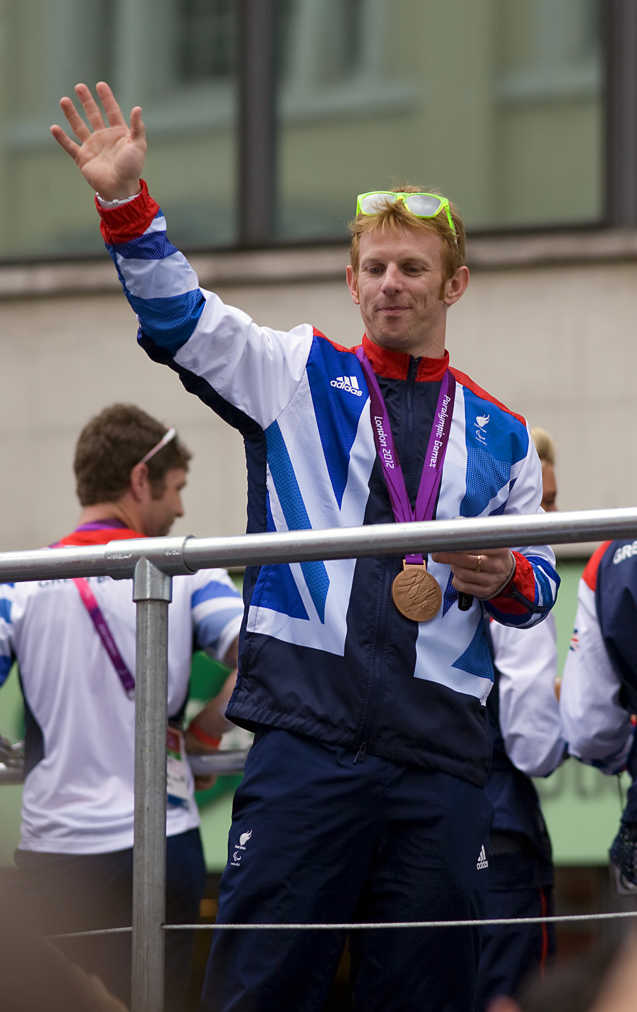 London 2012 Olympic & Paralympic Games Victory Parade, 10th September